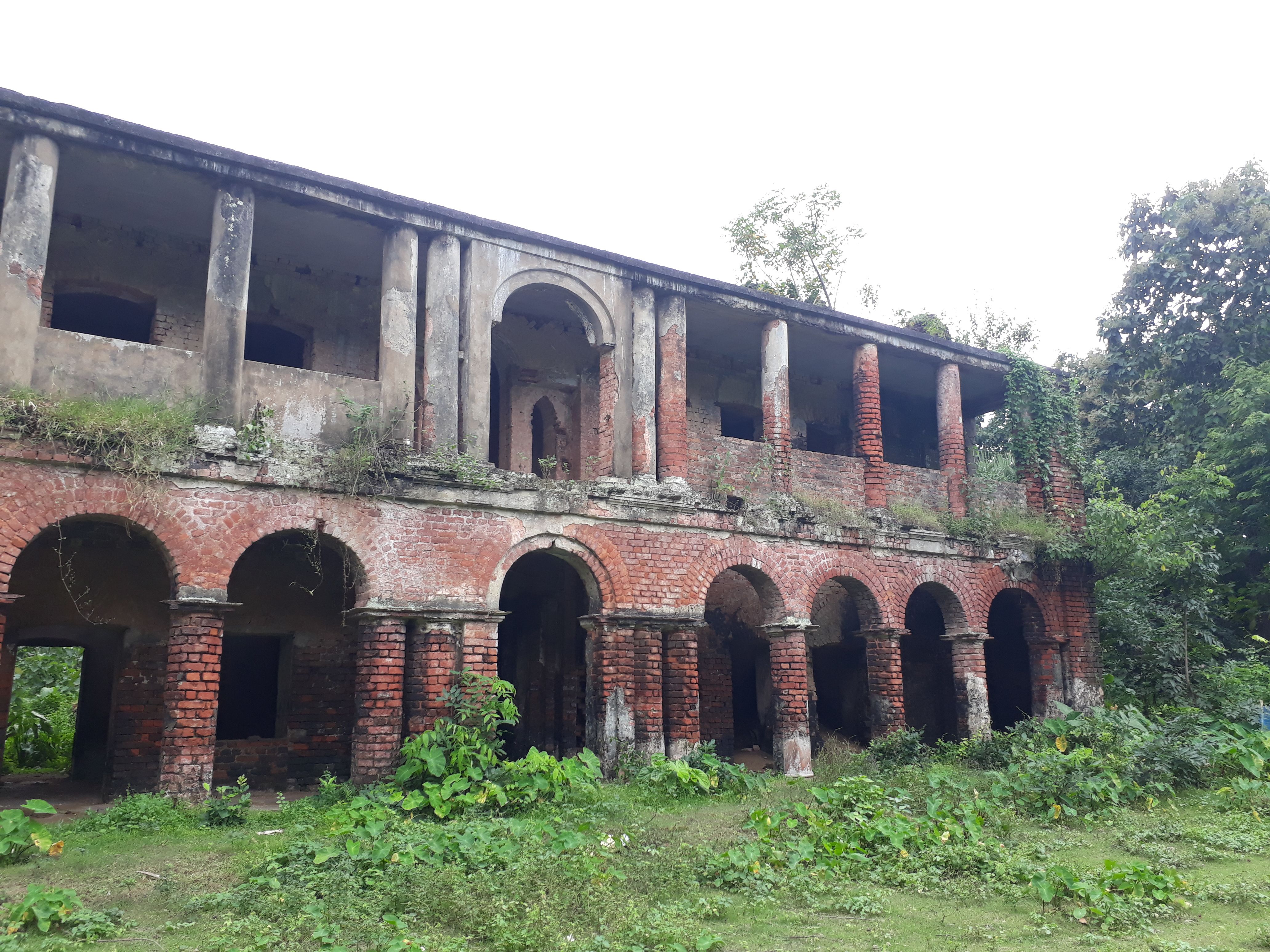 Neel (Indigo) Kuthi at Mongalganj, near Bangaon, North 24 Parganas.